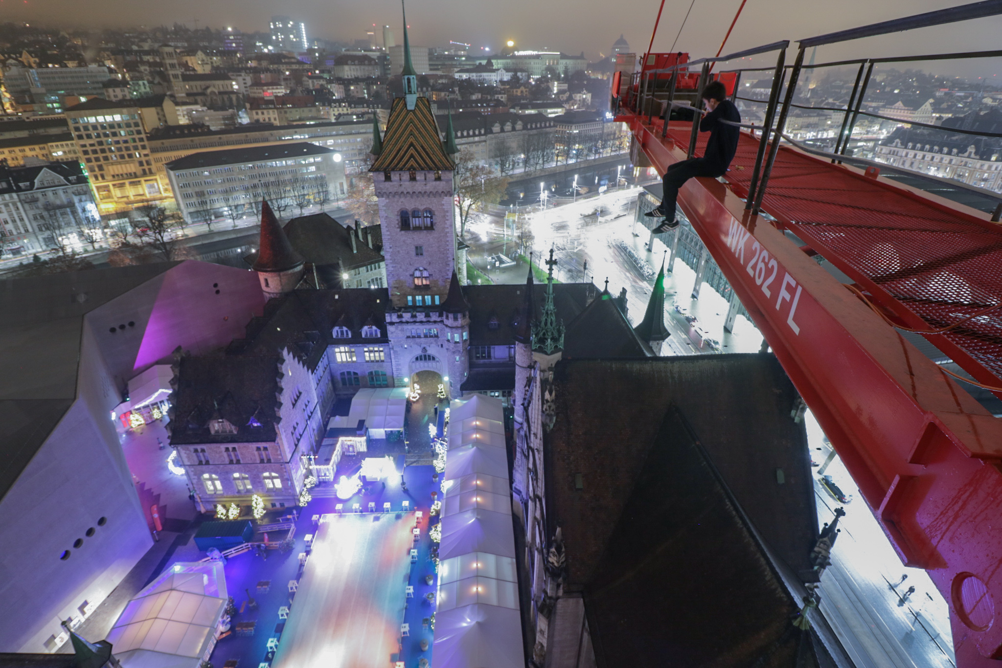 A rooftopper sits on a crane over the swiss national museum in Zurich, Switzerland.